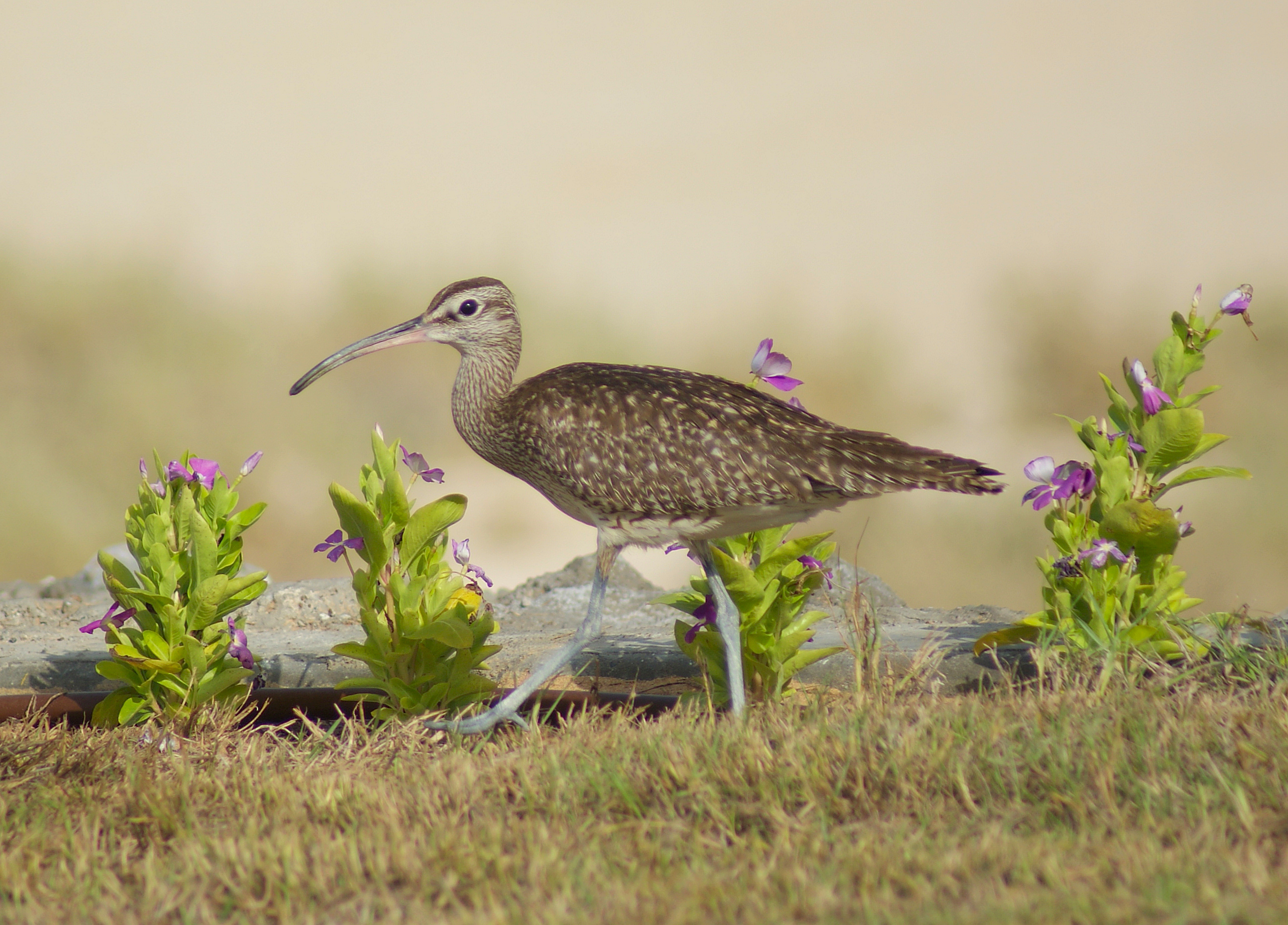 Whimbrel on Yas Island.